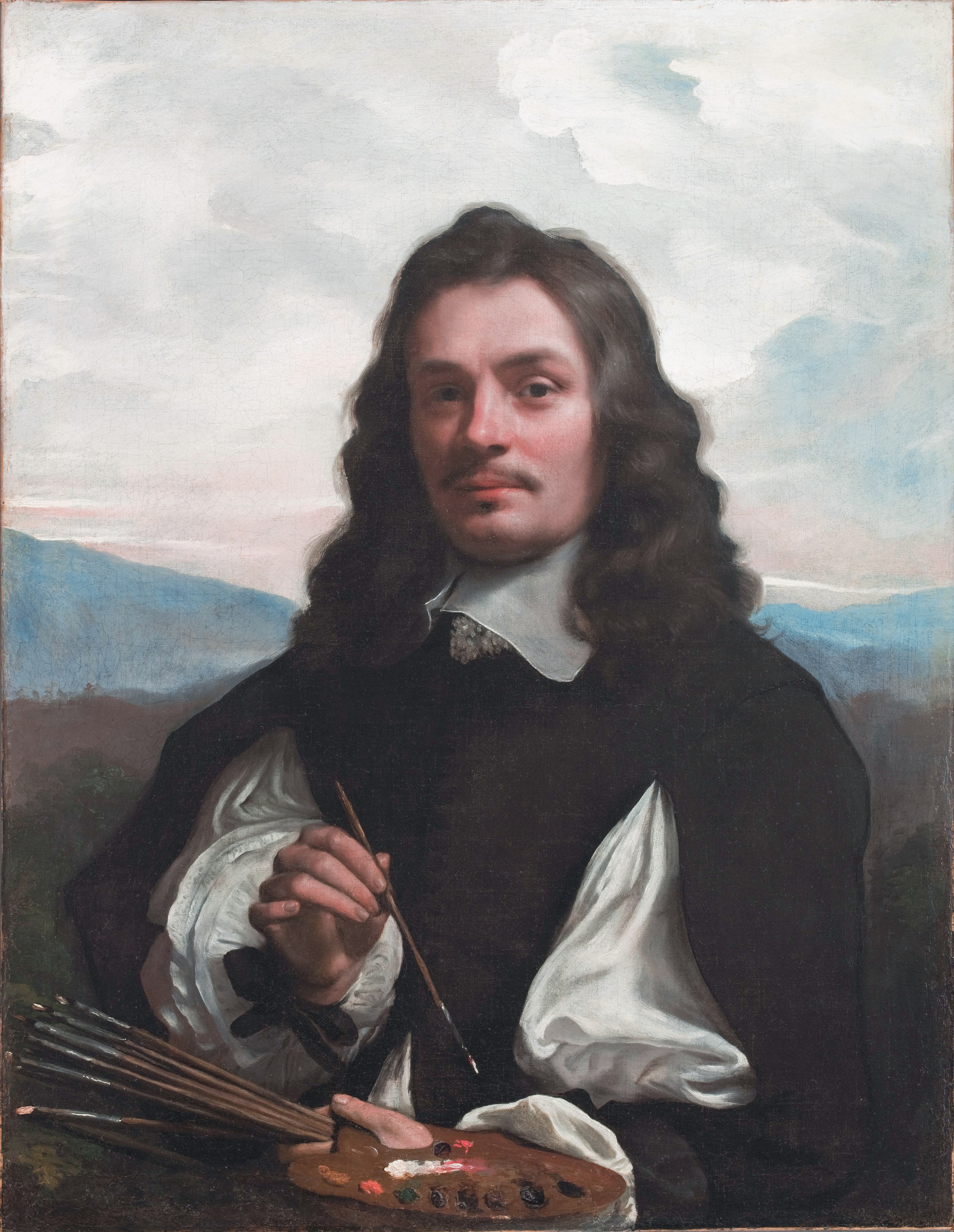 Self-portrait oil on canvas 94.5 x 73.4 cm circa 1656